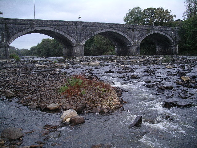 Listowel Bridge, Co Kerry. Bridge of the River Feale in Listowel, Co. Kerry